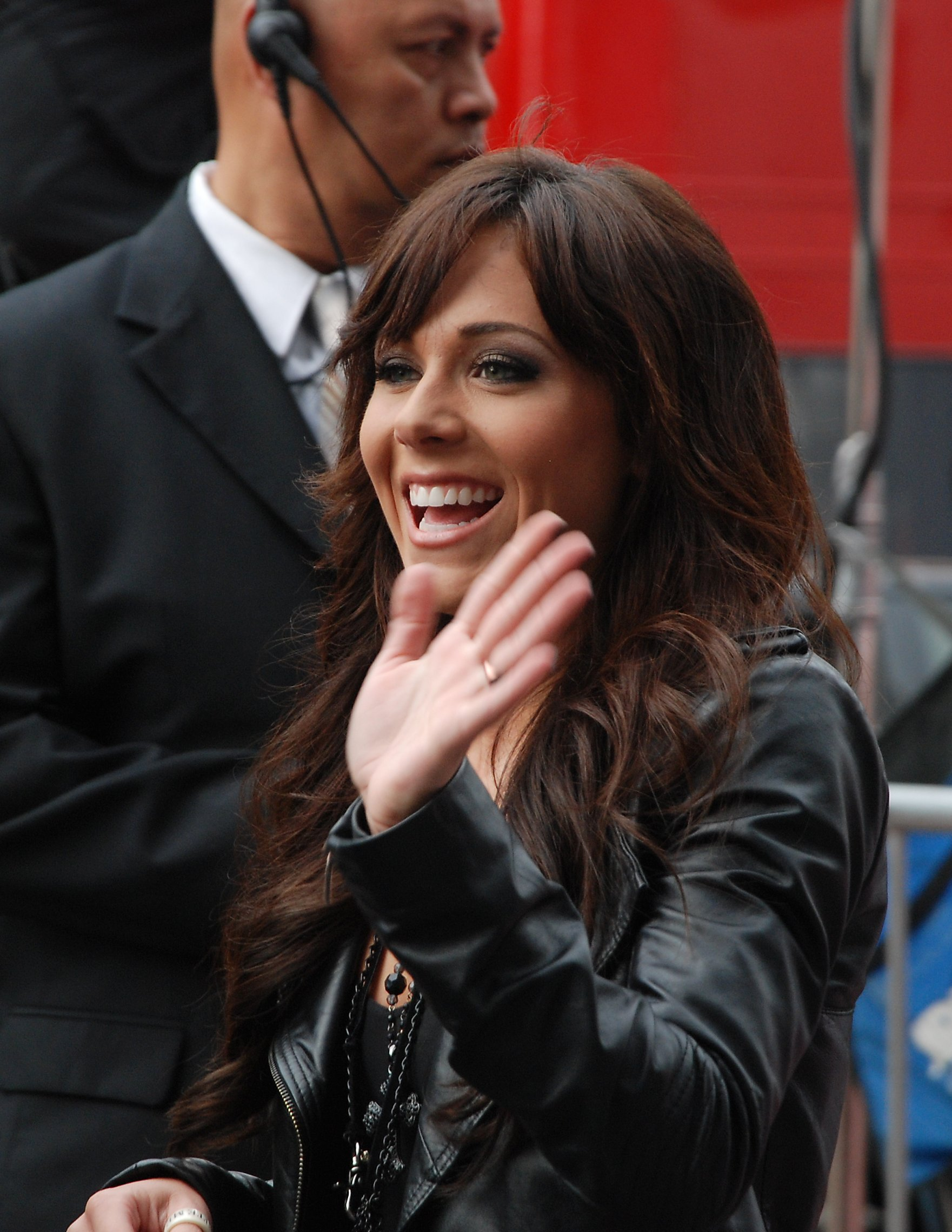 Mandy Jiroux during a movie premiere in Hollywood, California